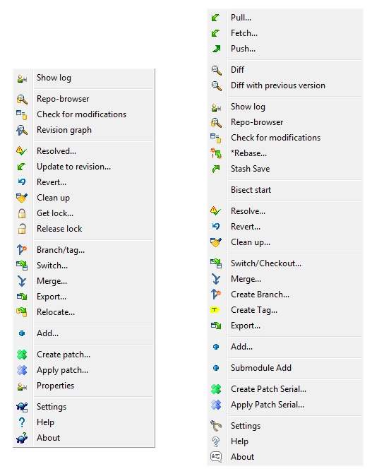 Comparison TortoiseSVN and TortoiseGit